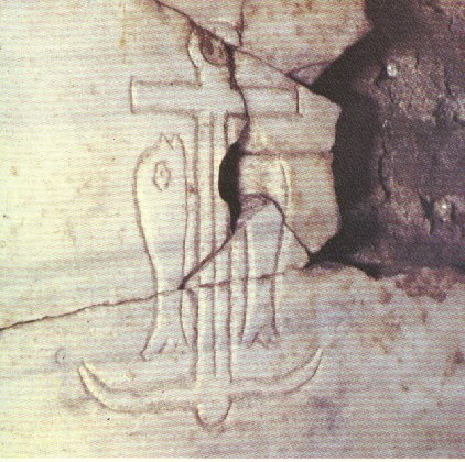 detalla catacumba